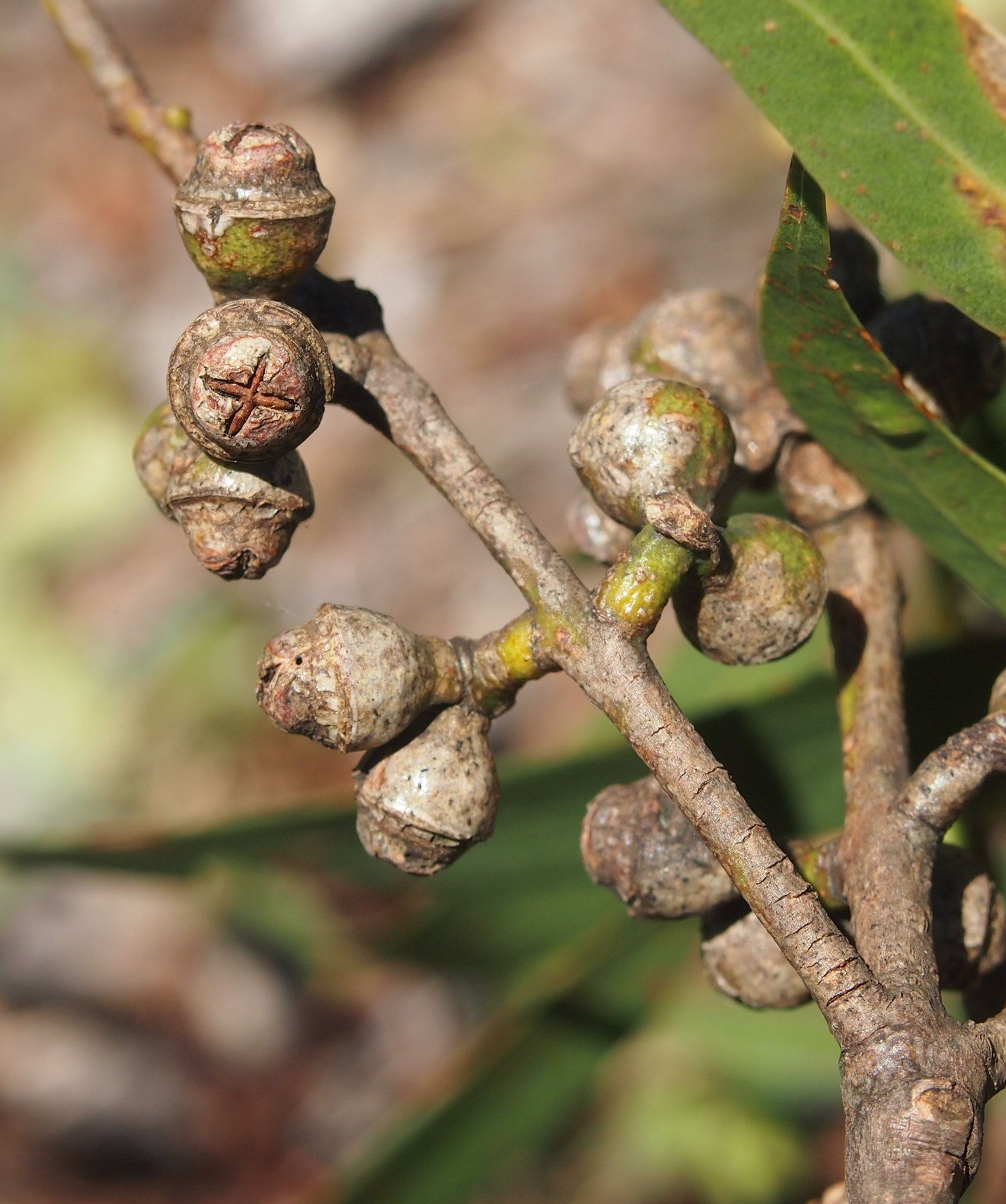 Eucalyptus exerta capsules